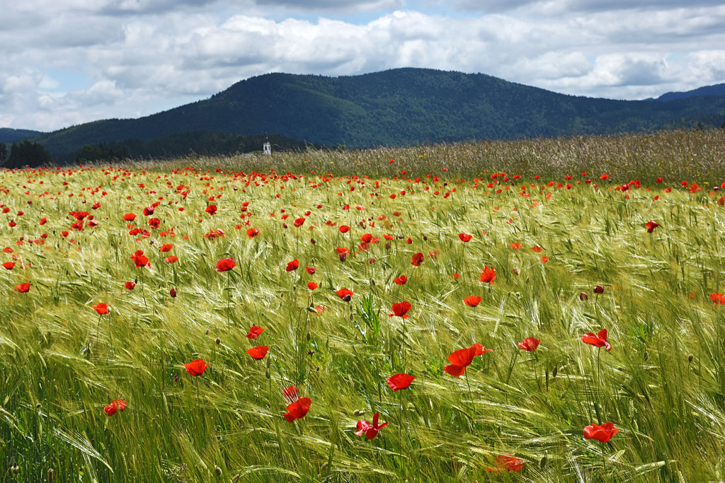 Early June near Nova vas on Bloke plateau, Central Slovenia.